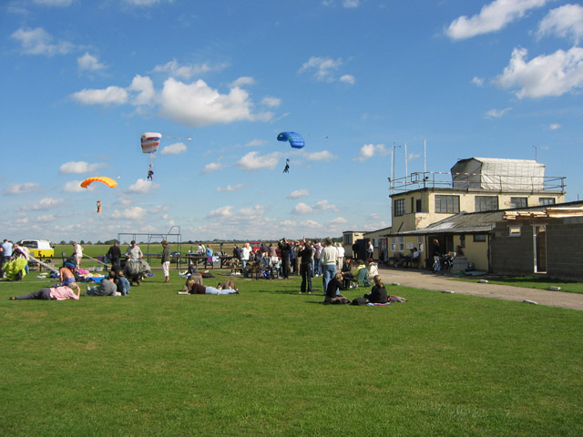 British Parachute School, Langar Airfield. Built as a bomber base in World War II, the airfield is now used by the Parachute School, as well as industrial companies such as John Deere. for more information on events organised by the School.